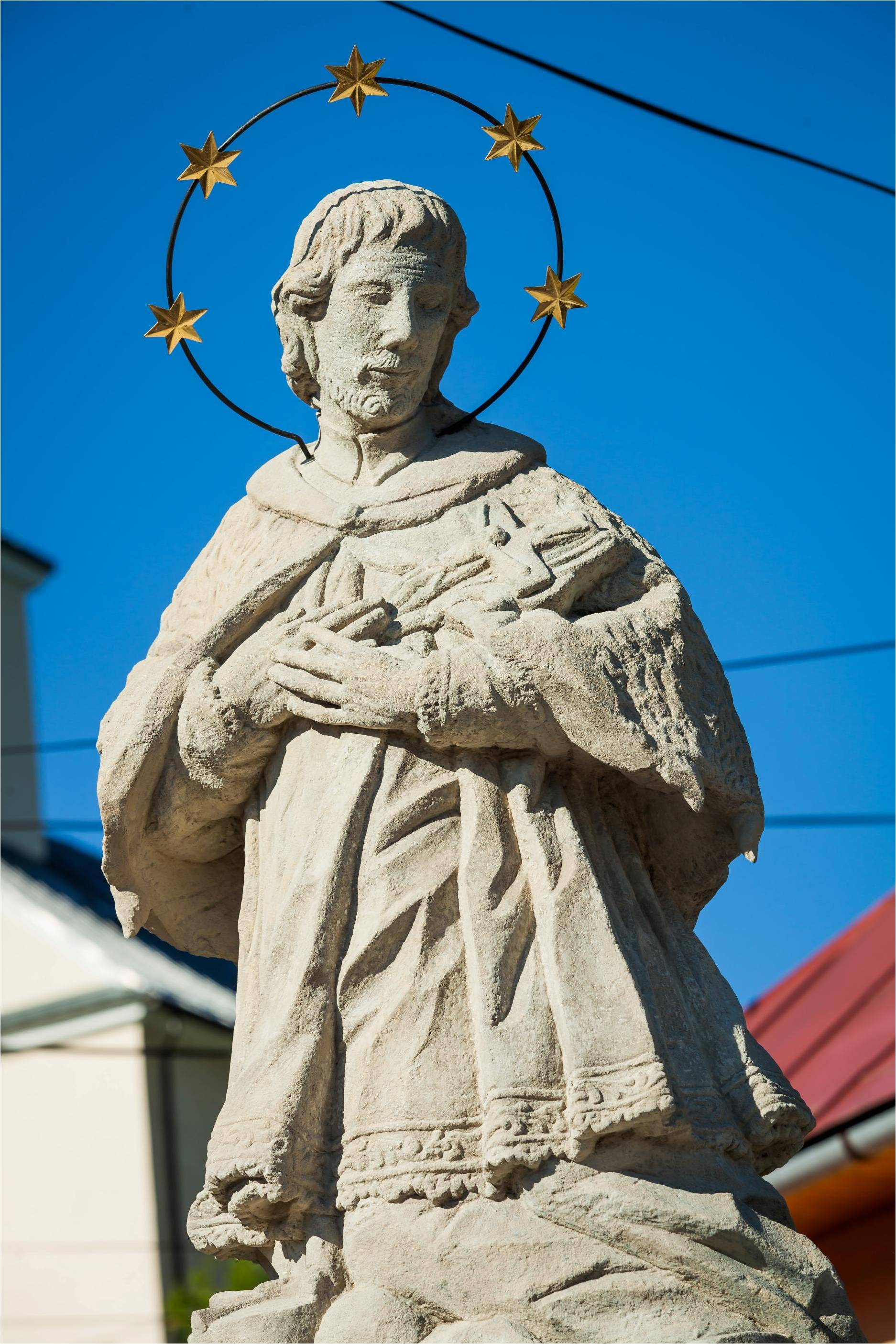 The Late Baroque statue, National Cultural Monument of Slovakia